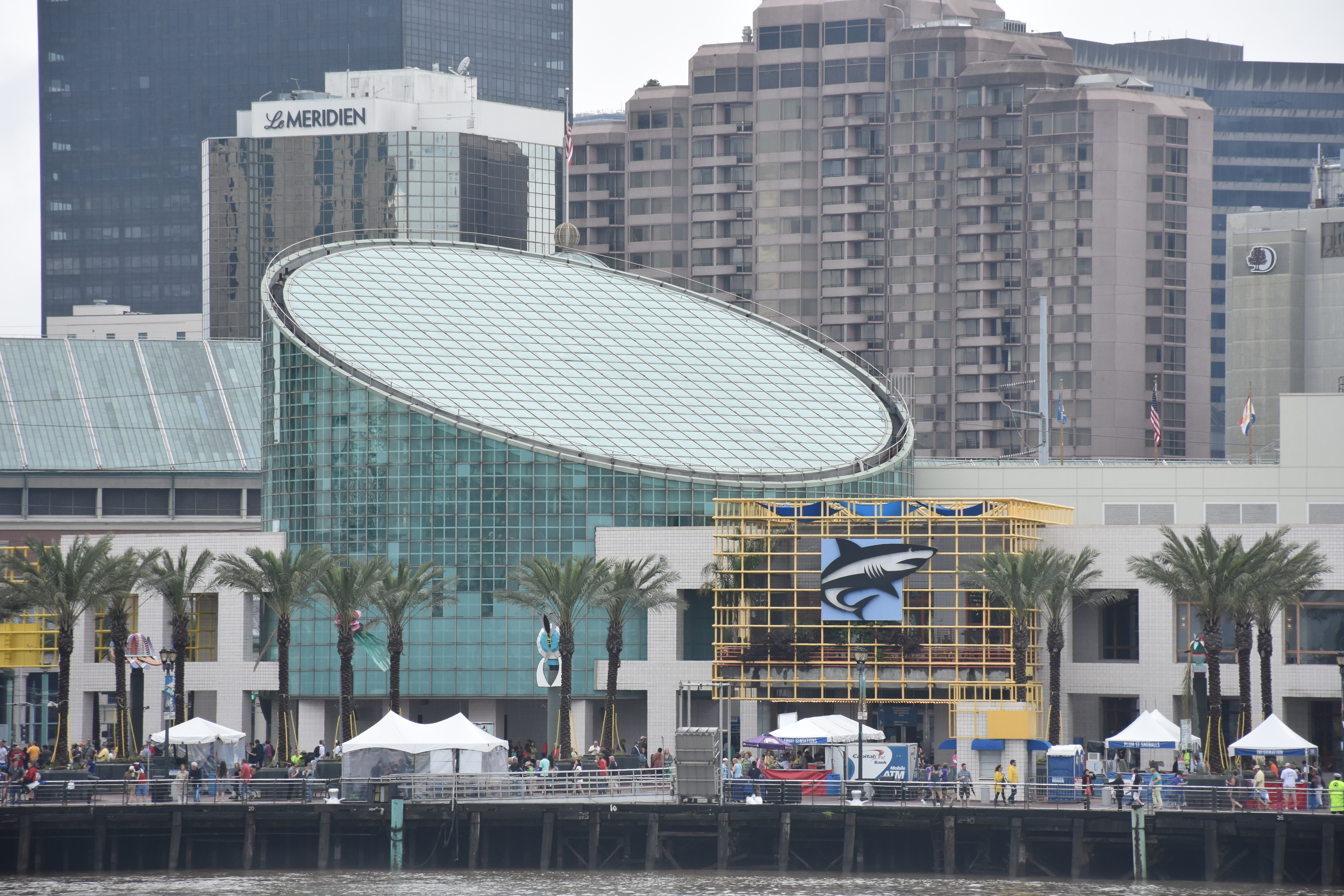 Aquarium of the Americas in New Orleans from the Mississippi River